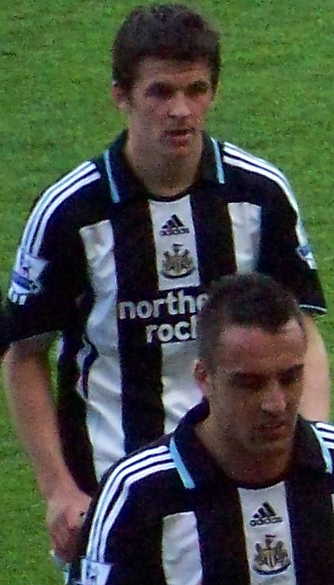 Joey Barton. Image cropped from original at flickr.